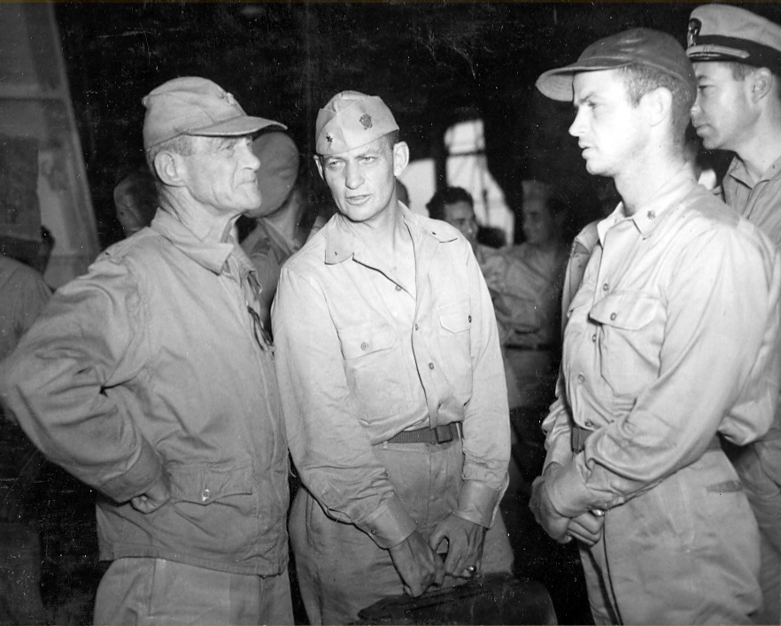 Admiral Mitscher and his chief of staff Arleigh Burke arrive on board Enterprise after flagship Bunker Hill was badly damaged from two kamikaze attacks. The attacks set the ship's island afire, and killed or wounded a number of Mitscher's senior staff. Among the dead was Dr. Ray Hege, the physician Admiral Nimitz had assigned to watch over the frail health of Admiral Mitscher.